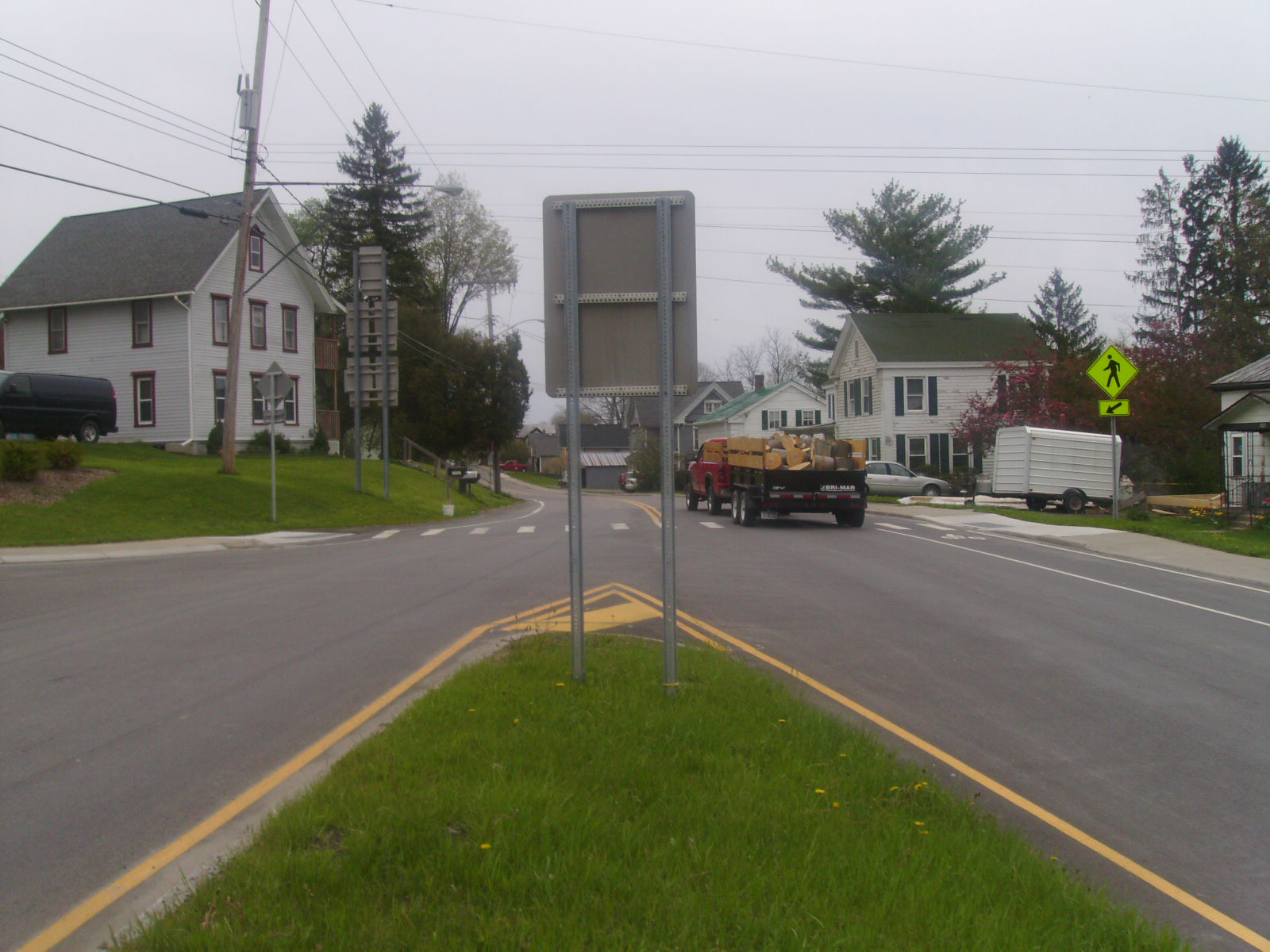 The western terminus of New York State Route 206 in the community of Whitney Point, New York.